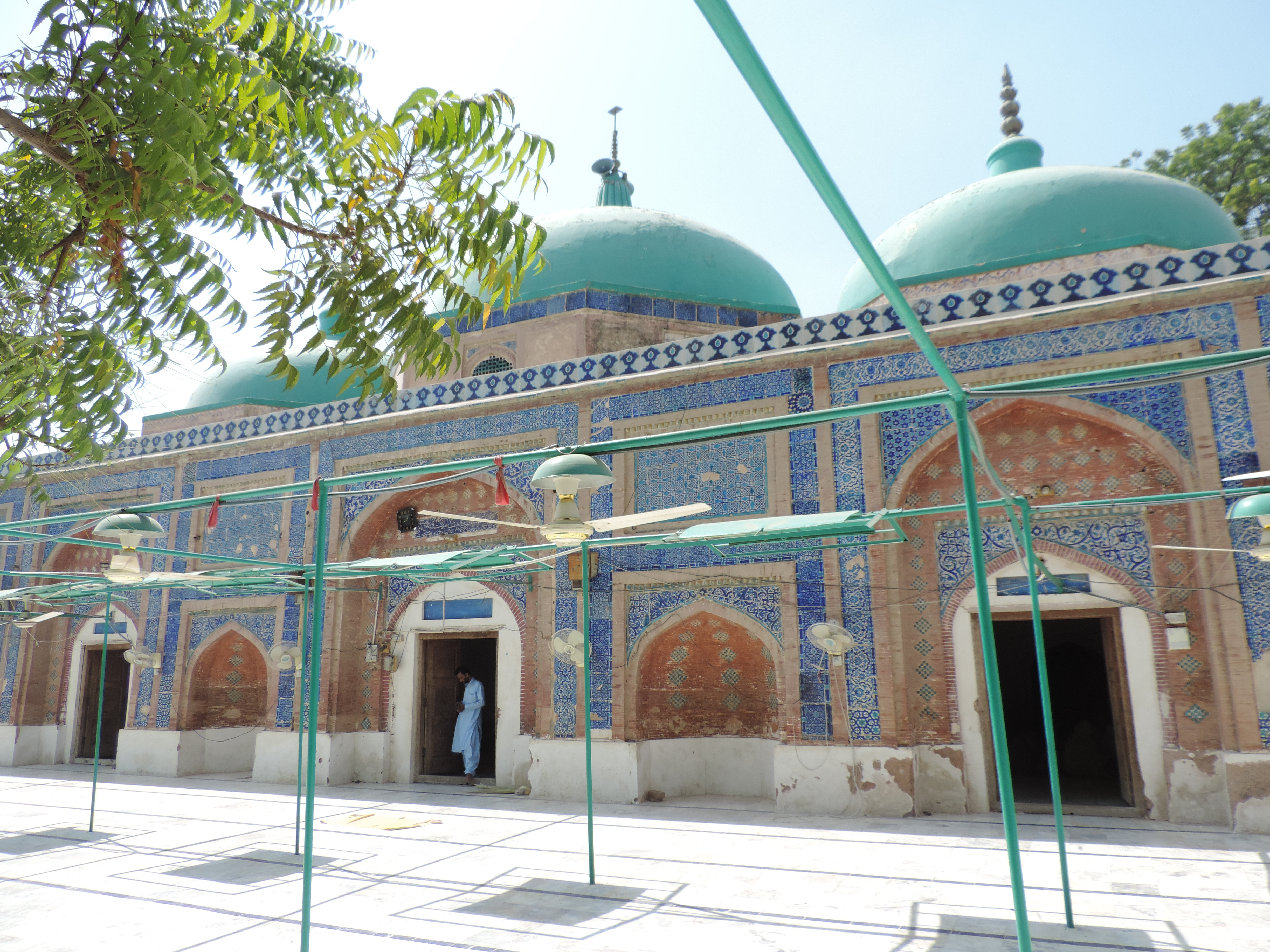 Shrine of Hazrat Mahboob Subhani and attached mosque This is a photo of a monument in Pakistan identified as the PB-P-5